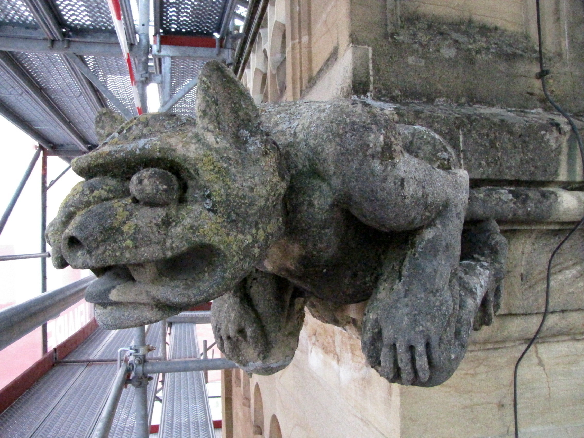 Gargoyle of "collégiale de Neuchâtel"